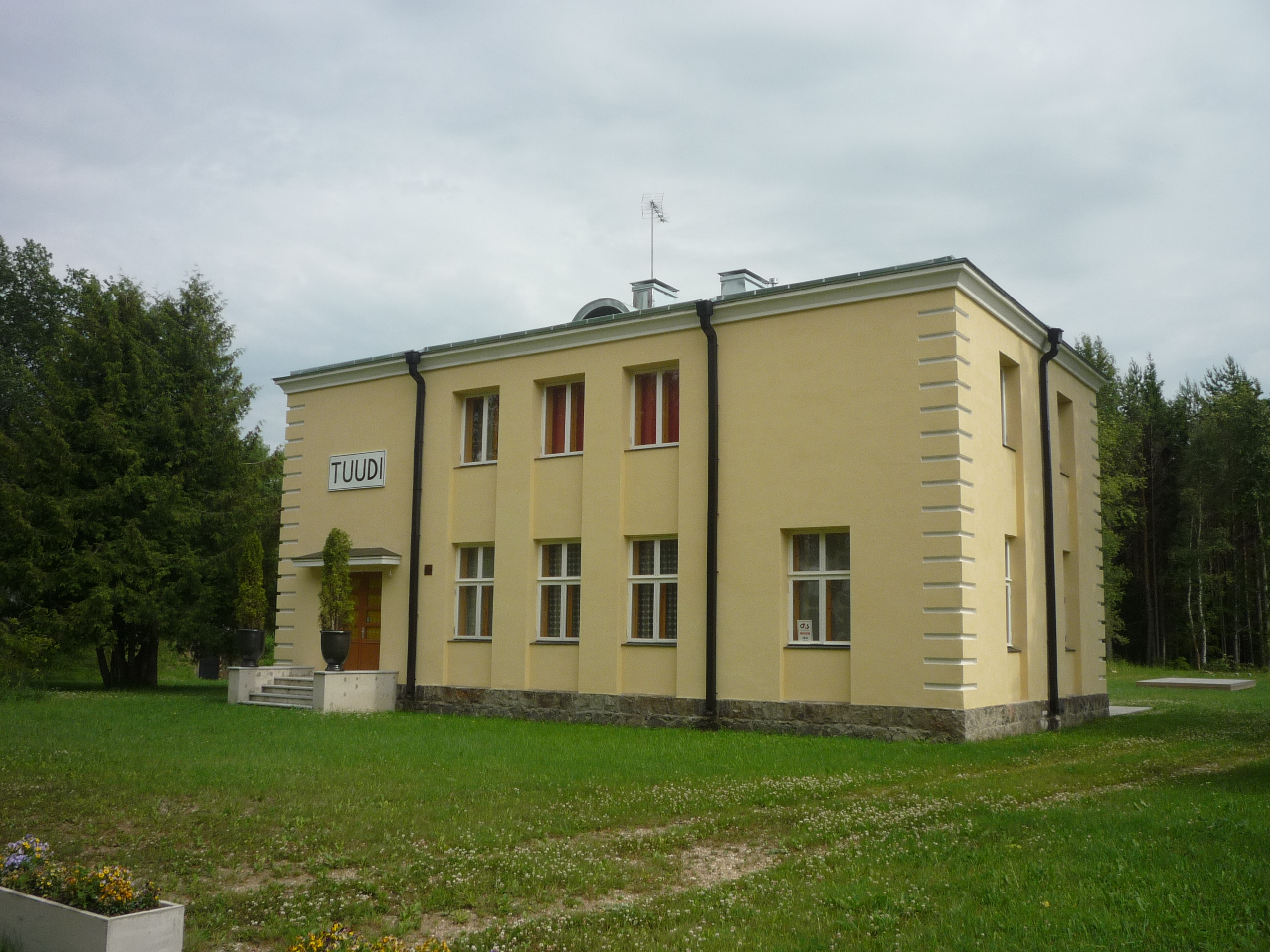 Tuudi railway station building. Tuudi, Lääne county, Estonia.